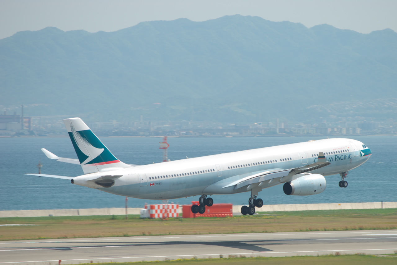 CPA A330-343X(B-HLOA),flight CX506 for Hongkong take off from runway 24 end of Kansai international airport(KIX/RJBB). It taken on the rooftop of skyview in the airport. 関西空港の展望ホールskyviewから離陸中の香港行きキャセイパシフィック航空506便のA330-343Xを撮影した。